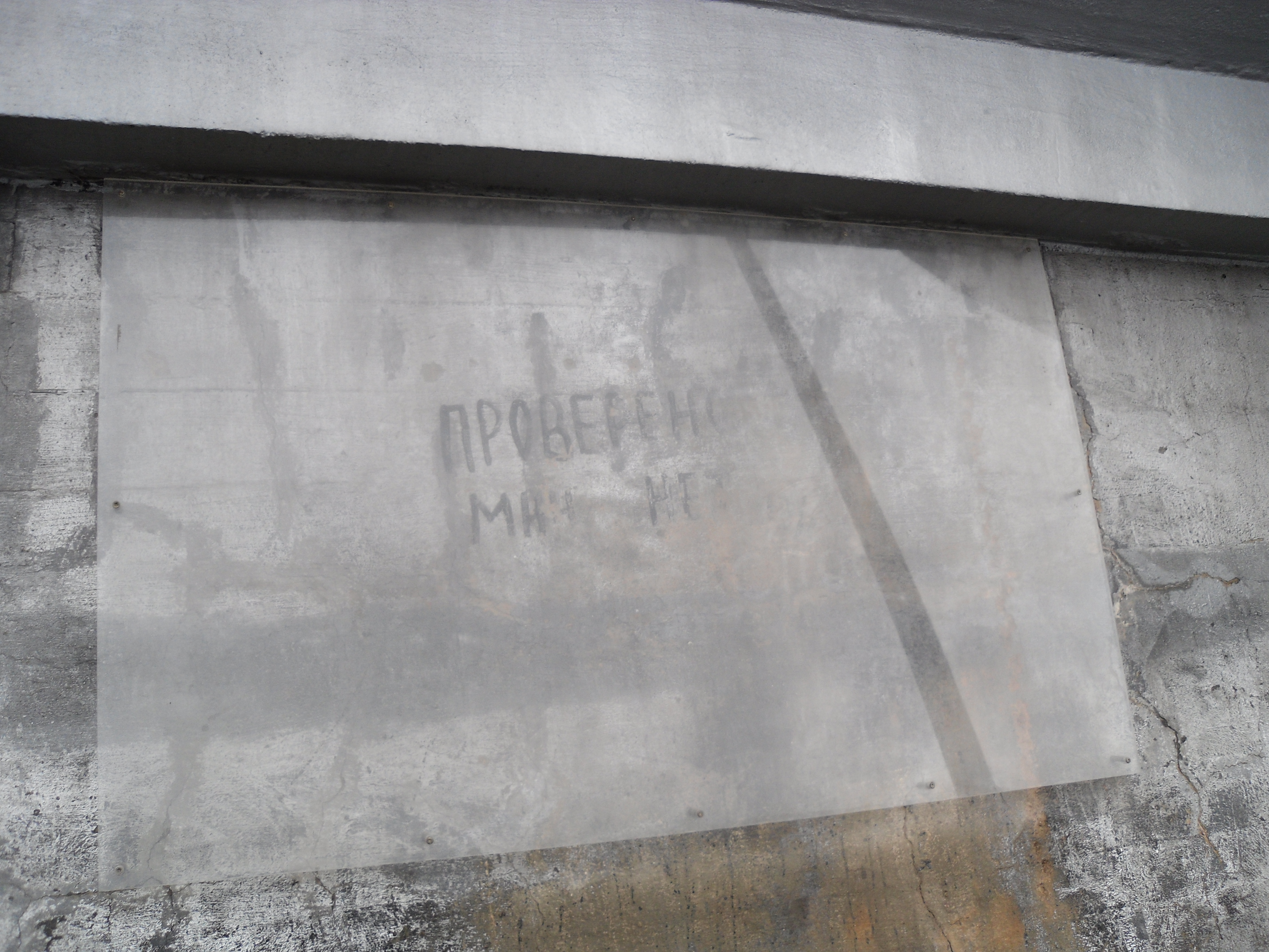 Sign «Проверено. Мин нет» (Russian - «tested. no mines») at Big wind channel